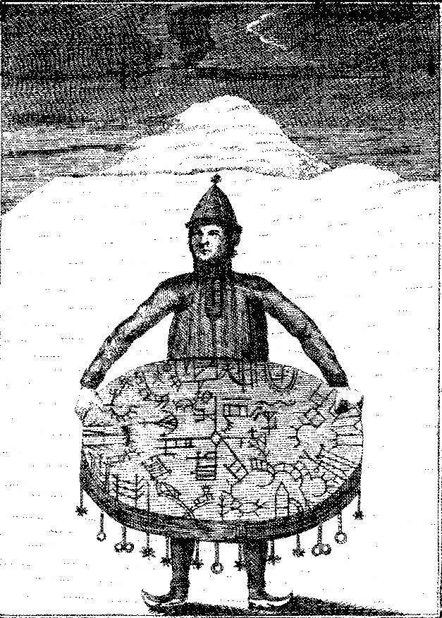 See File:Shaman.jpg for a better version of this picture.. Copper carving (XVIIIth century) showing a shaman with his magic drum (meavrresgárri). Carving made by O.H. von Lode, for a book by Knud Leem : “Beskrivelse over Finnmarkens Lapper, deres Tungemaal, Levenmaade og forrige Afgudsdyrkelse”, Copenhague, 1767.